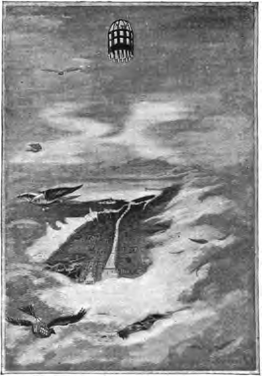 Illustrations from "A Journey in Other Worlds" by John Jacob Astor IV; 1894, 1st US edition. Illustration by Daniel Carter Beard. Orginal caption / Oryginalny podpis